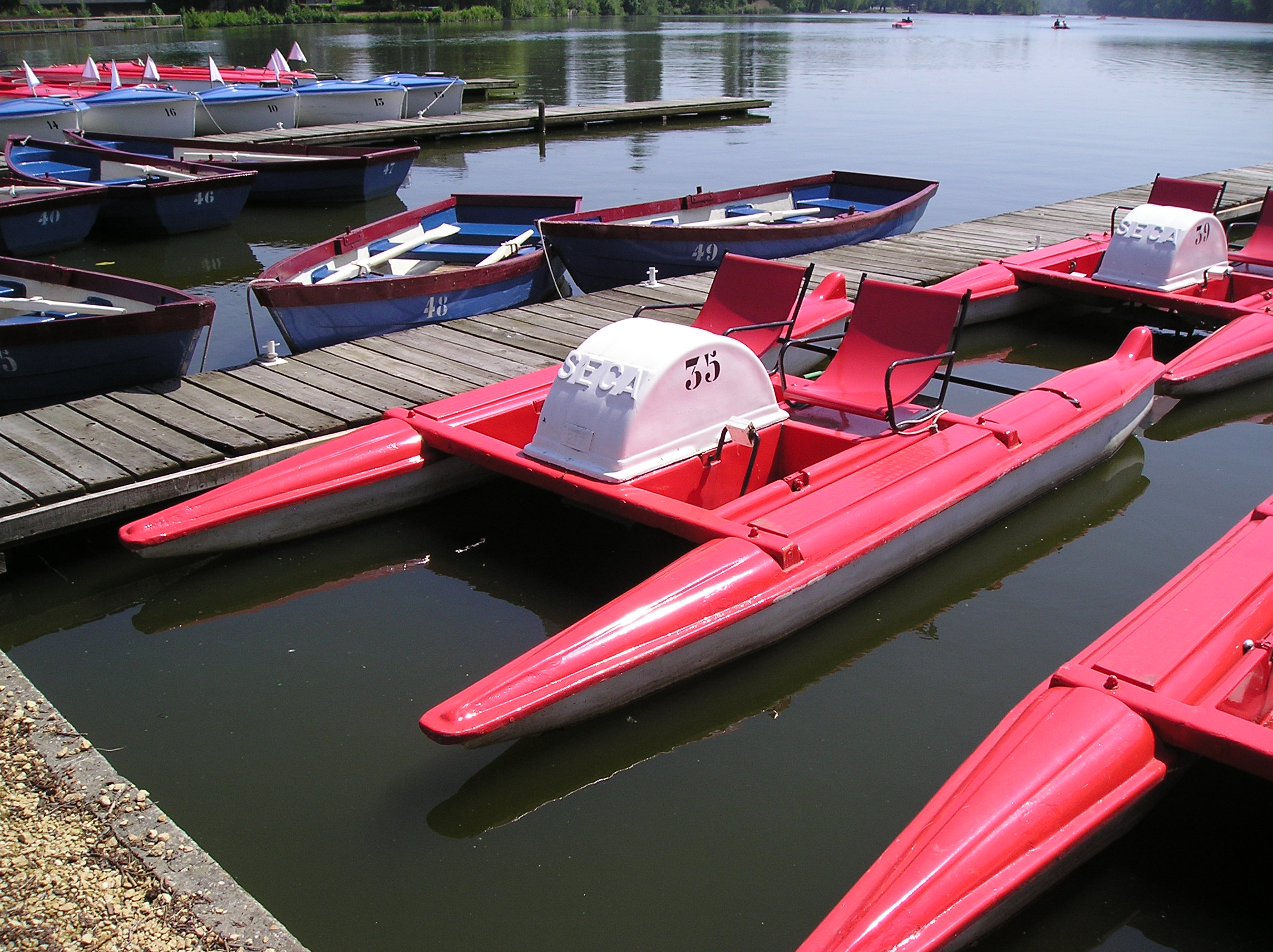 Hydrobikes for hire. Donkmeer lake